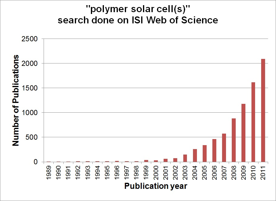 Number of scientific publications contributing to the subject “polymer solar cell(s)” by year. Search done through ISI, Web of Science. Compare to Polymer Solar Cells by Harald Hoppe, in Adv Polym Sci (2008) p. 4.